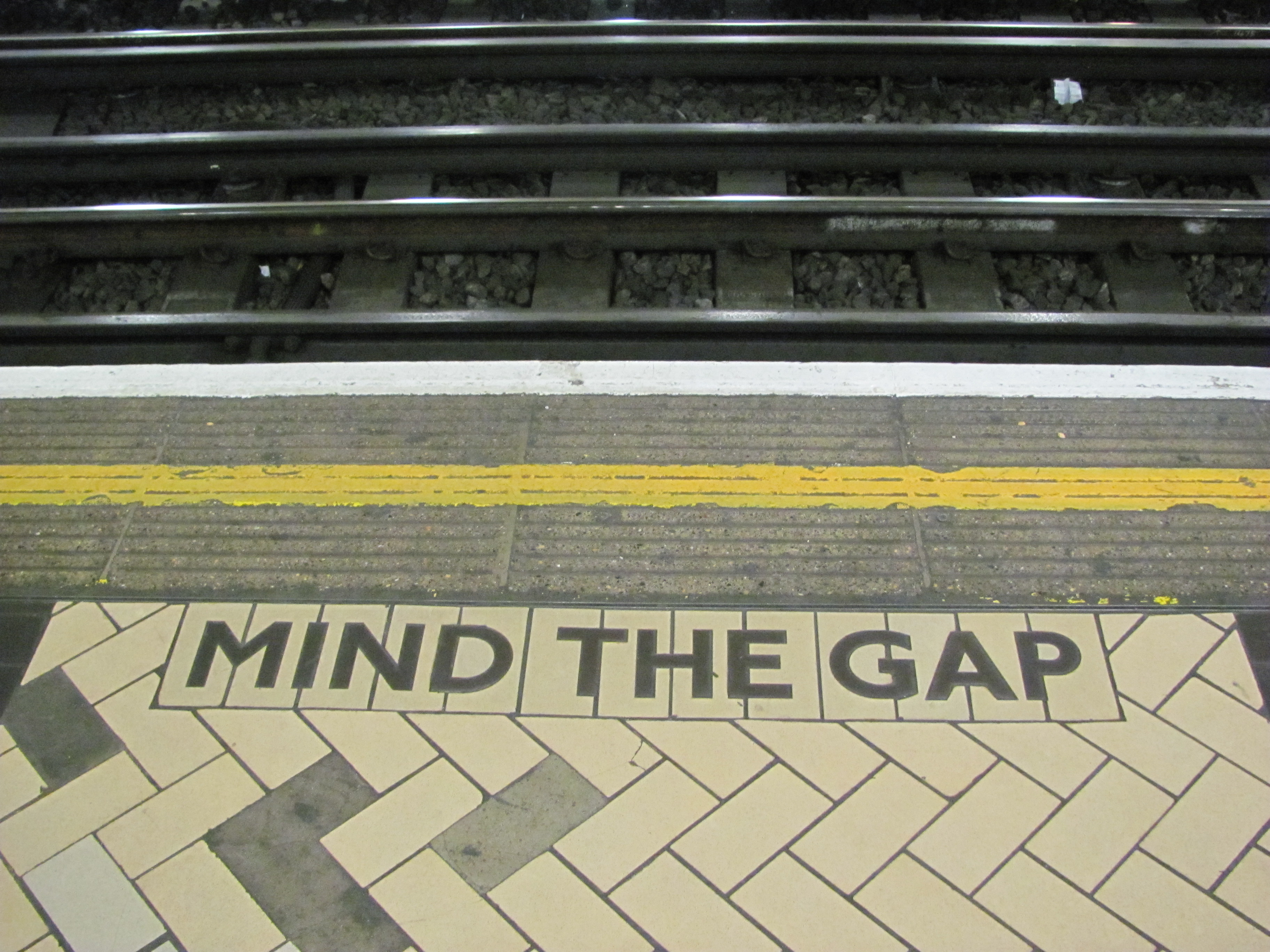 Warning: Mind the gap in London underground, Victoria Station